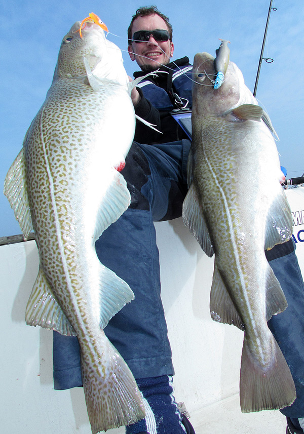 The left cod is one of the four France records cods caught by Guillaume Fourrier.